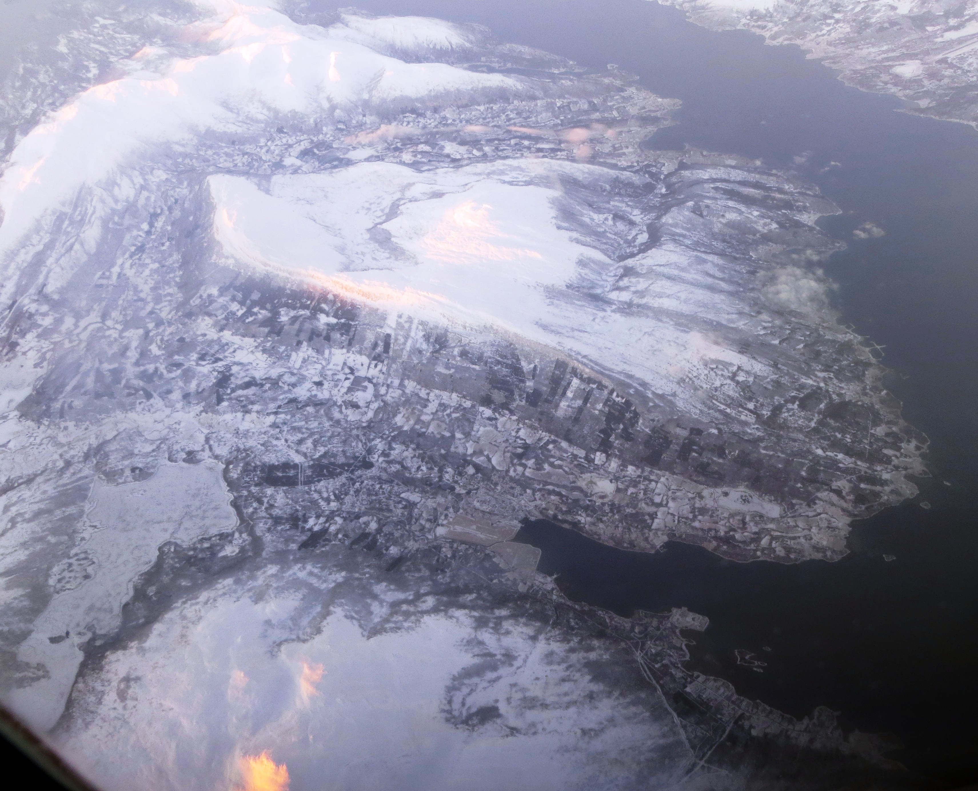 Aerial view from the east towards west, of Ballangen municipality in northern Nordland county, Norway. The fjord is the Ofotfjorden.